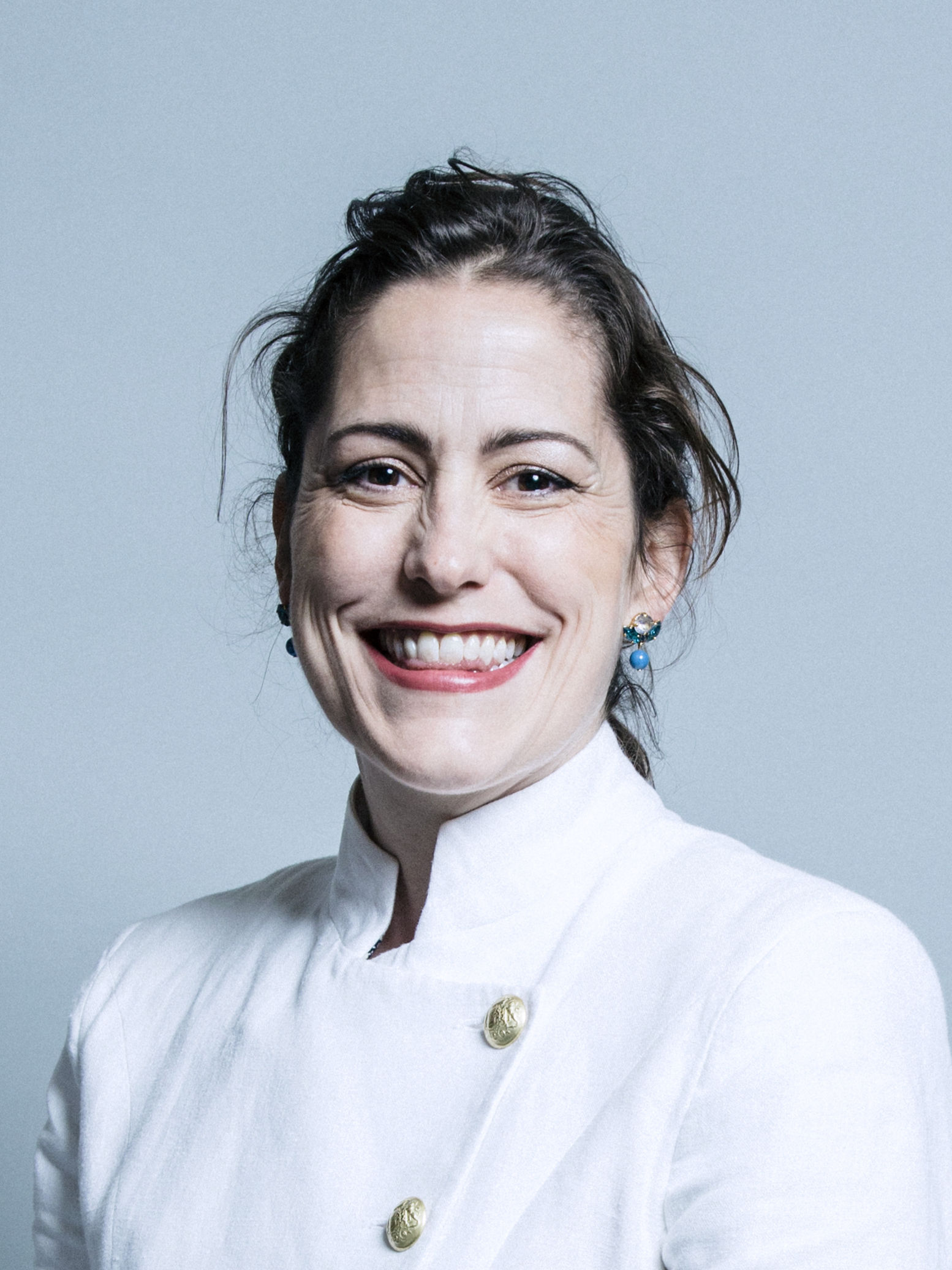 Official portrait of Victoria Atkins